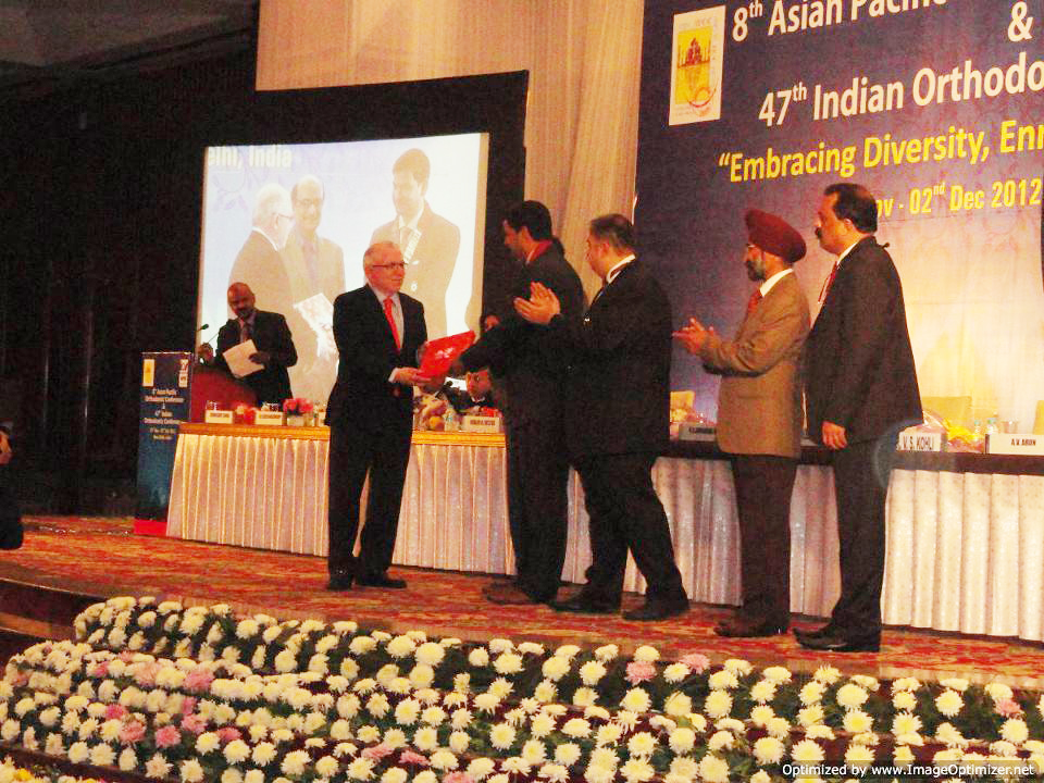 Dr. Nanda was honored with life membership of Indian orthodontic society